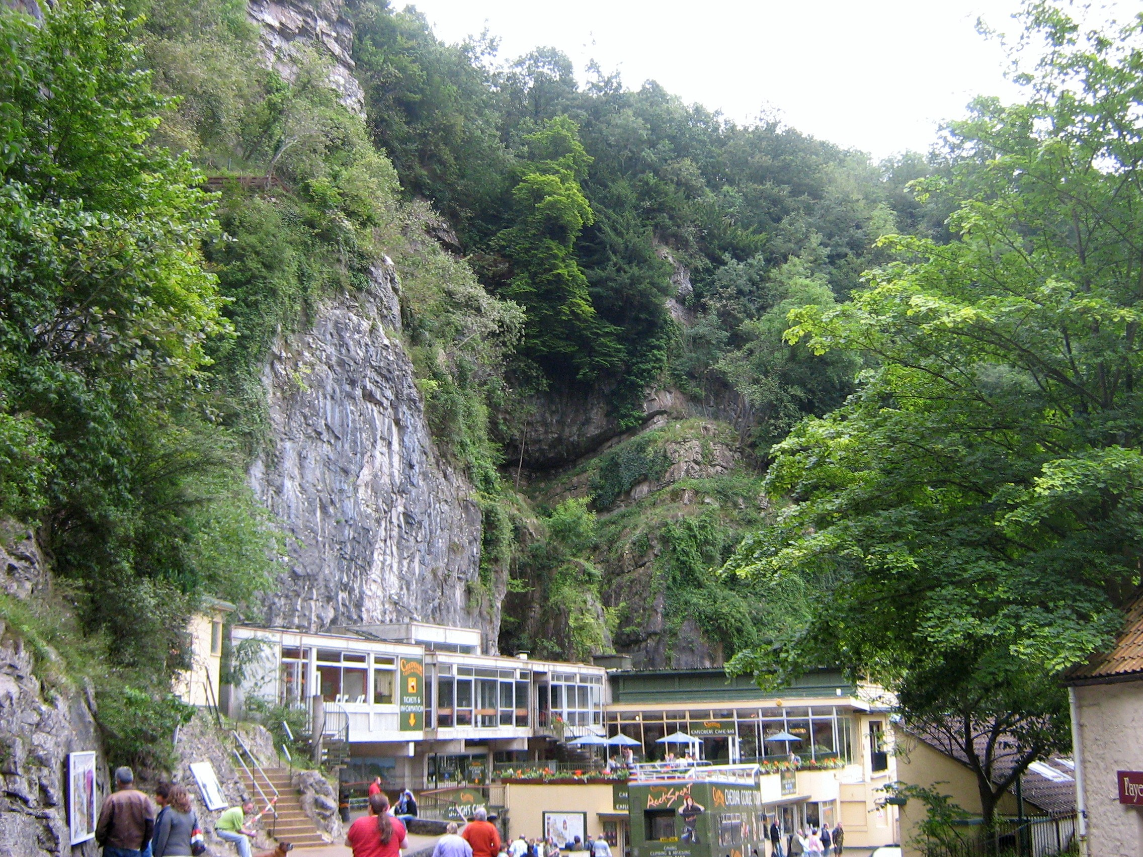 The visitor centre and restaurant below the cliffs., Cheader Gorge.